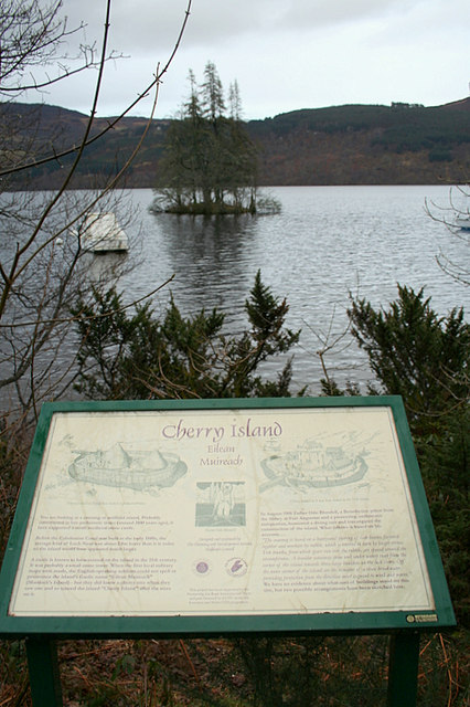 Cherry Island Explained